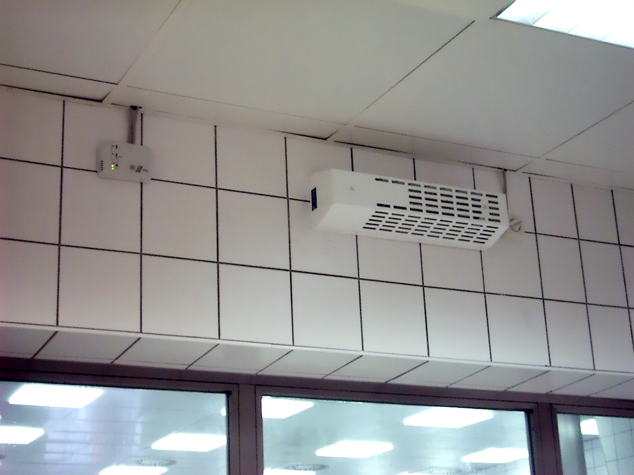 Ionization device as a wall unit in use.